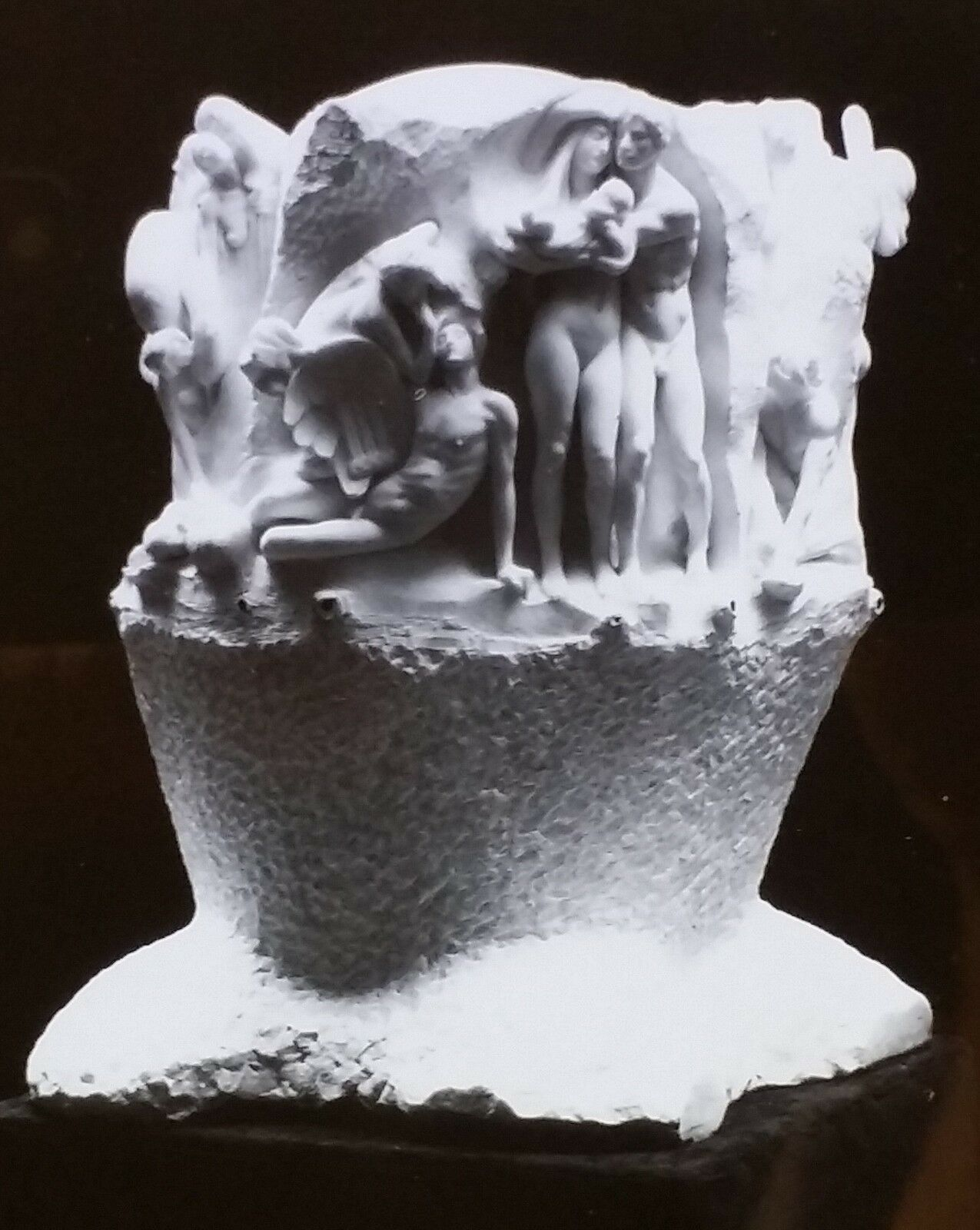 Verso of The Urn of Life (1906) by George Grey Barnard.